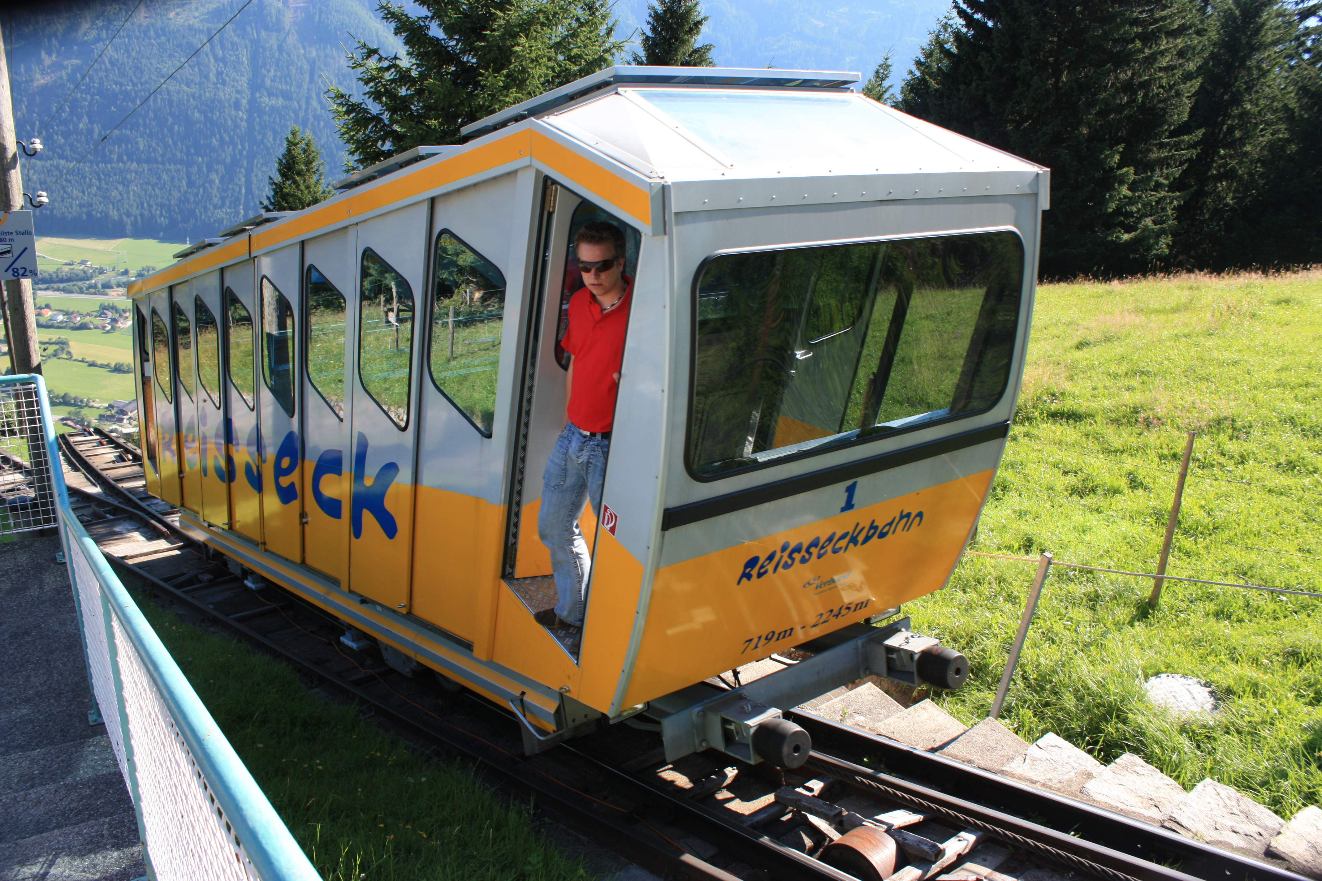 Reißeckbahn (Funicular) Community:Reißeck